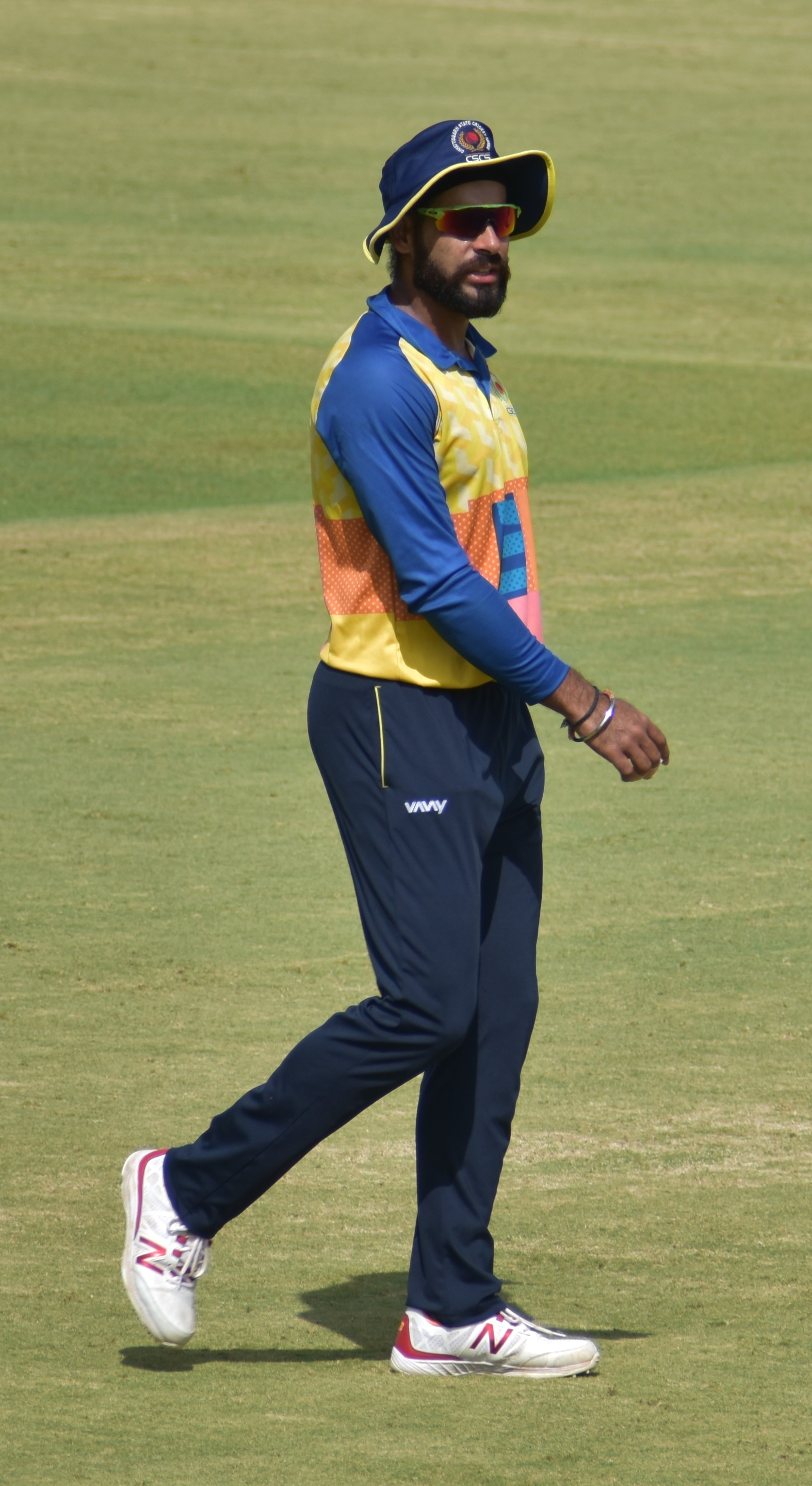 Indian cricketer Harpreet Singh Bhatia during the 2019-20 Vijay Hazare Trophy in Alur, Bangalore.